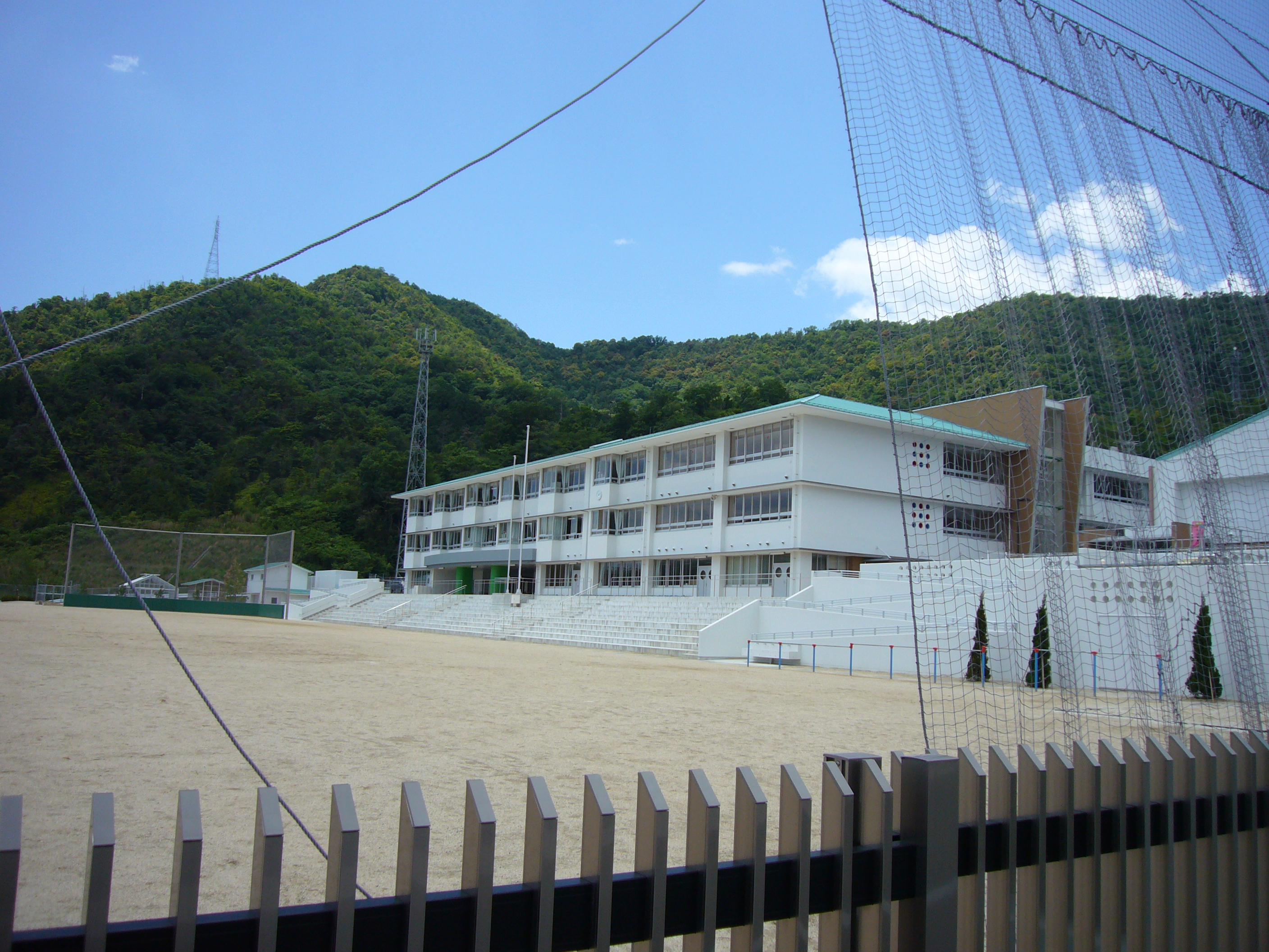 The Photograph of the playground of Hiroshima city Kasugano Elementary School